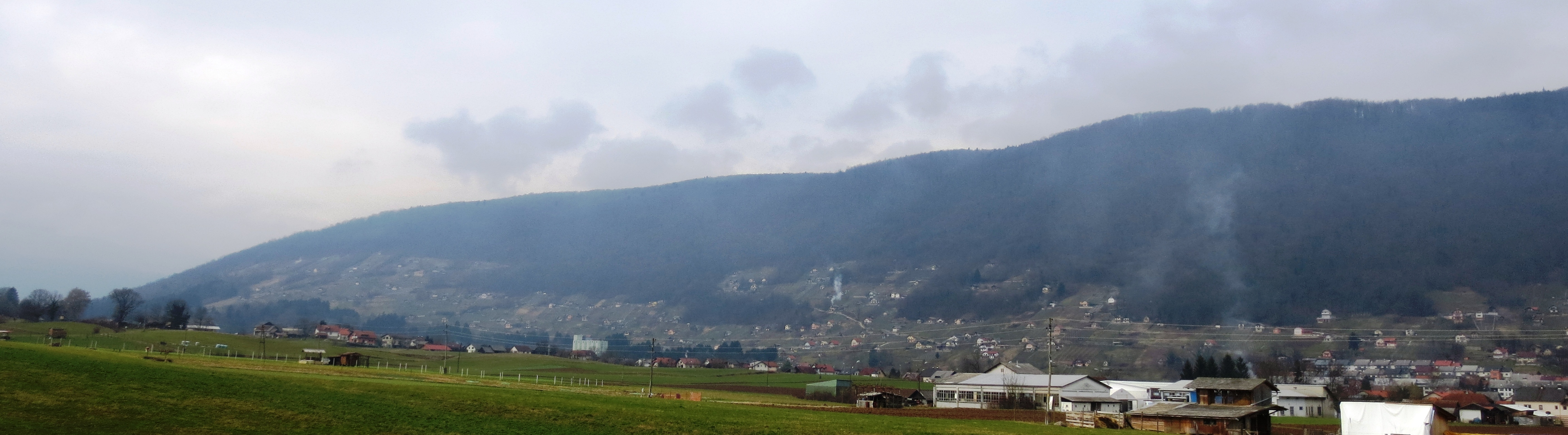 Straža belov Straška gora